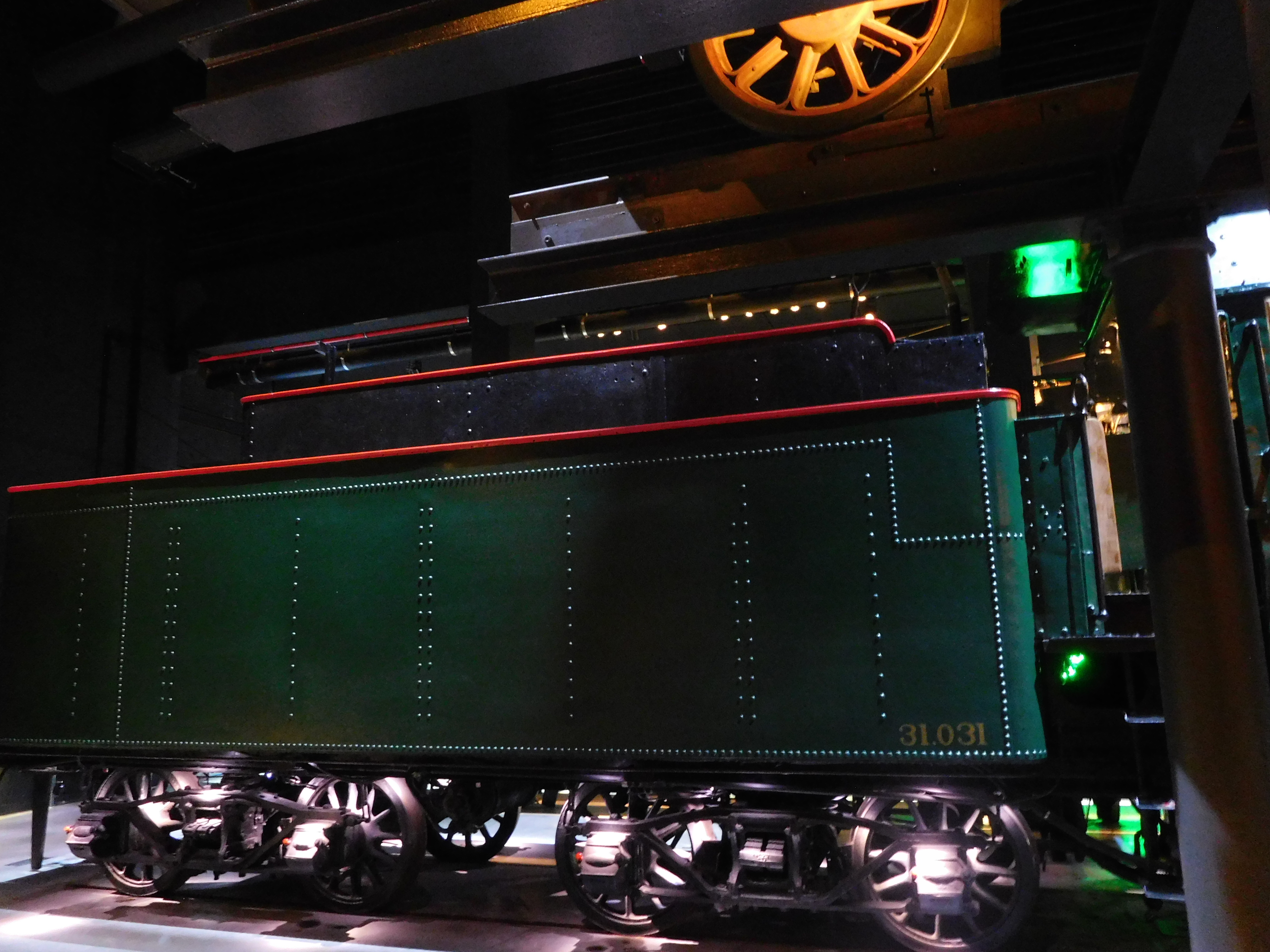 Former Prussian tender 2'2' T 31,5 rebuilt for Type 9 and Type 10 engines preserved in Train World alongside 10.018